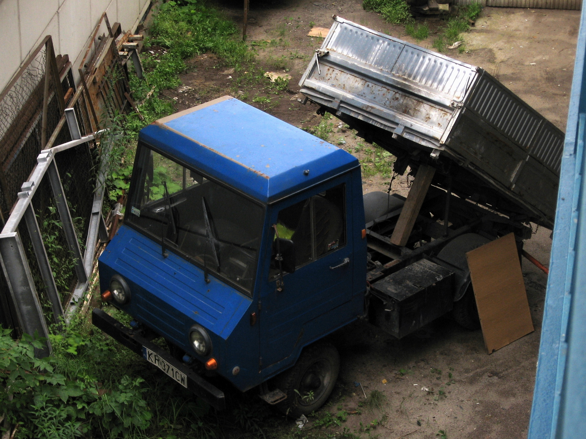 IFA Multicar M 24 in Kraków, Poland.